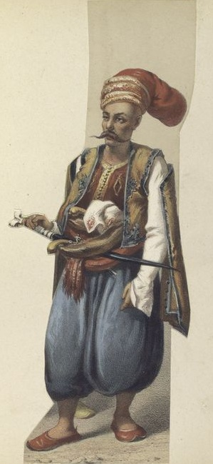 Bostanji. Turkey, 1820. Drawing from Vinkhuijzen Collection of Military Costume Illustration.